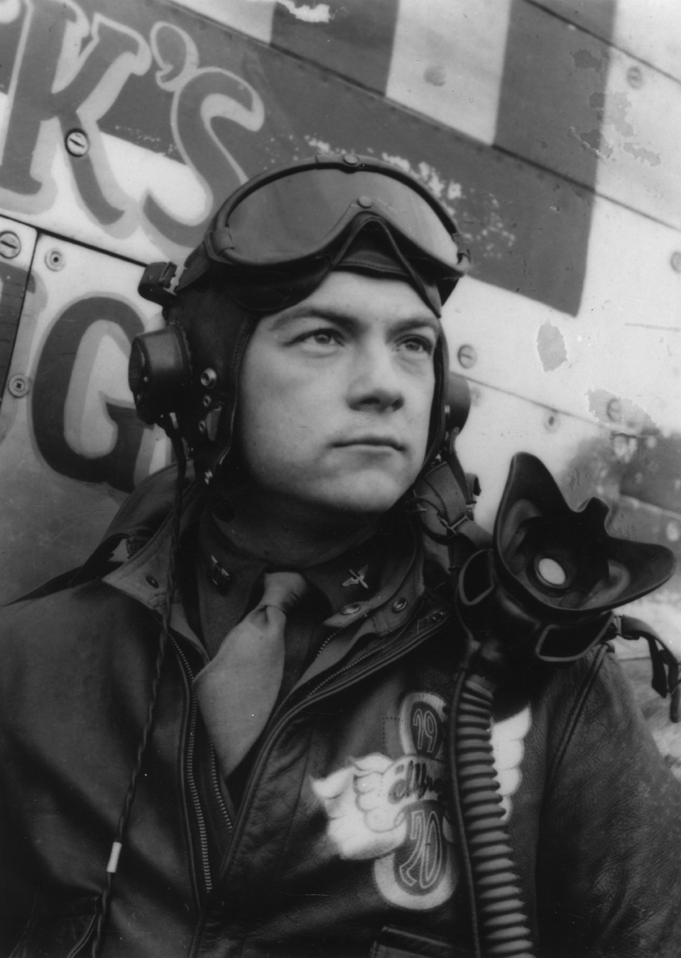 Captain Jack M. Ilfrey, one of the COs of the 79th Fighter Squadron, 20th Fighter Group, at Kings Cliffe air base. He stands in front of aircraft named "Happy Jack's Go Buggy".